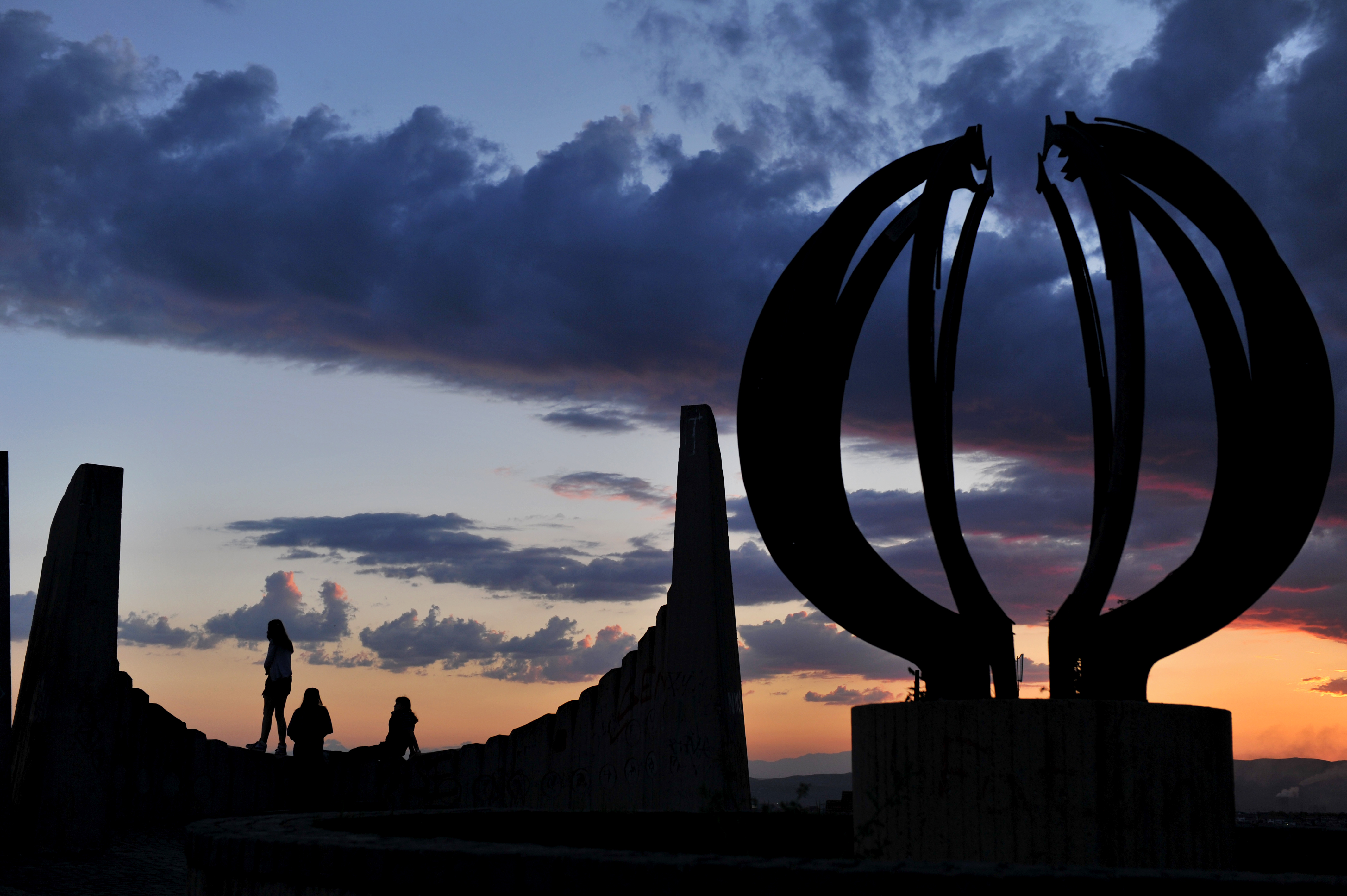 Permendoret e komunizimit (5)